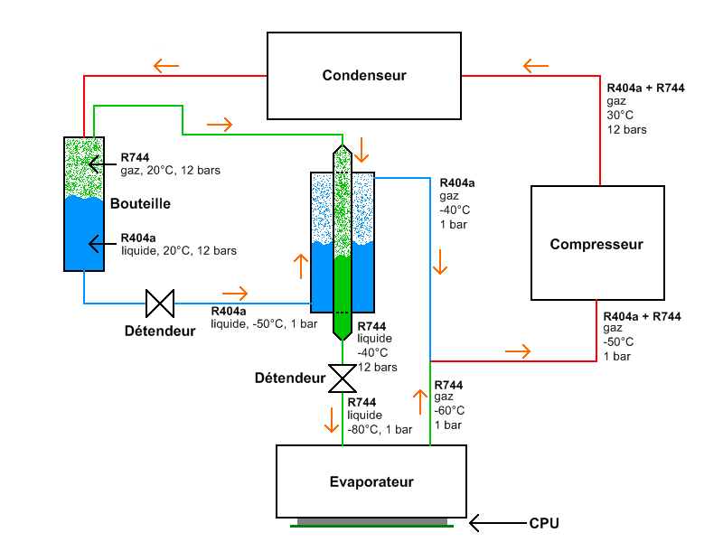 Functioning of phase-change cooling.